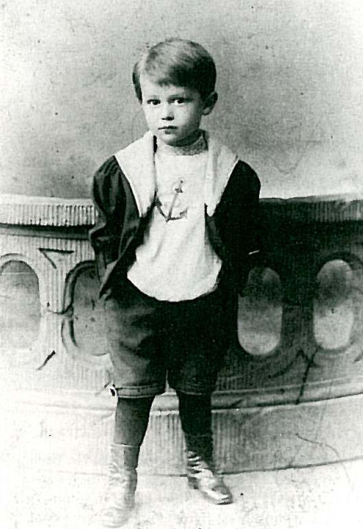 the German author Kurt Tucholsky